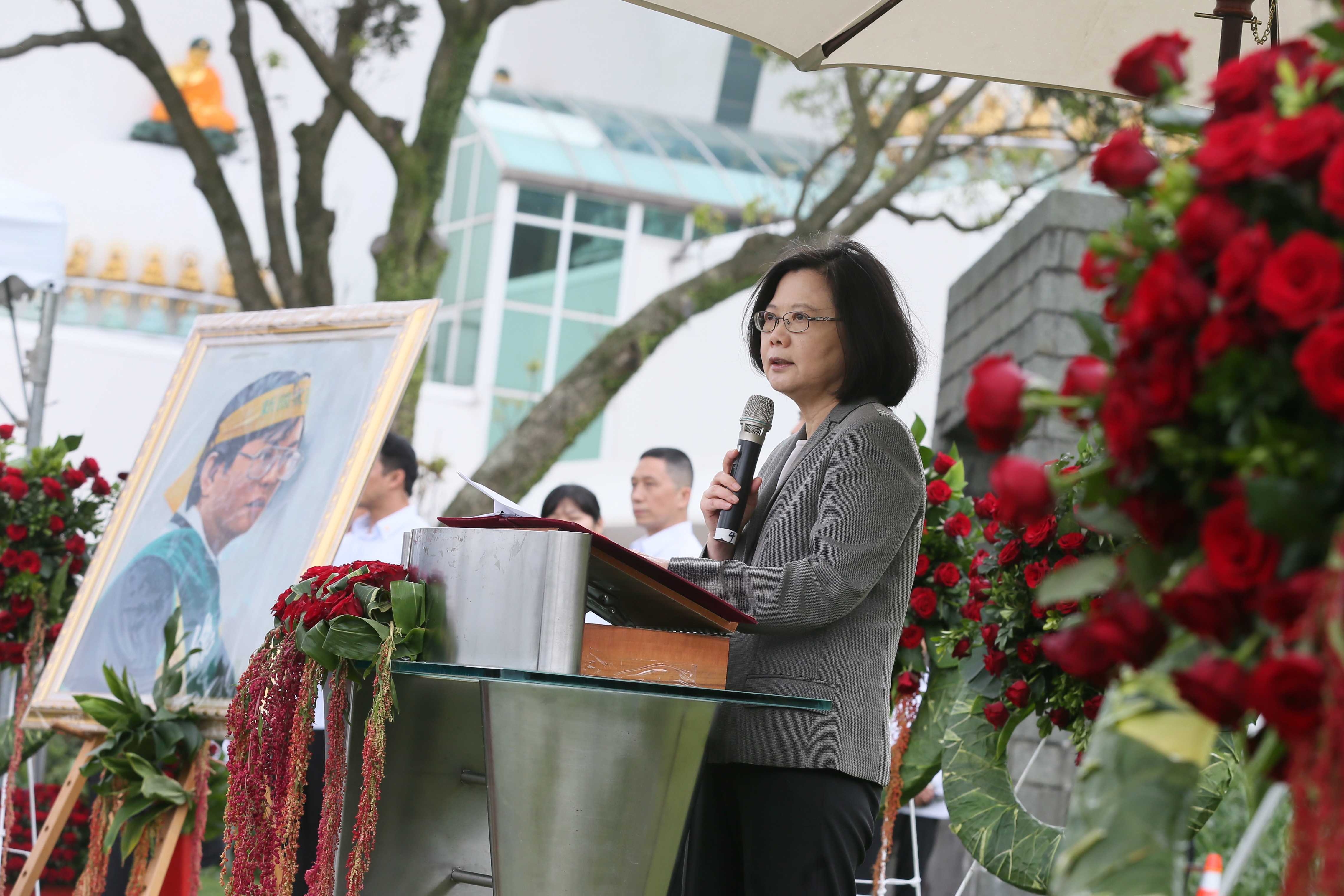 授權方式及範圍：中華民國總統府│政府網站資料開放宣告 Authorization Method & Scope: Office of the President, Republic of China (Taiwan) | Government Website Open Information Announcement